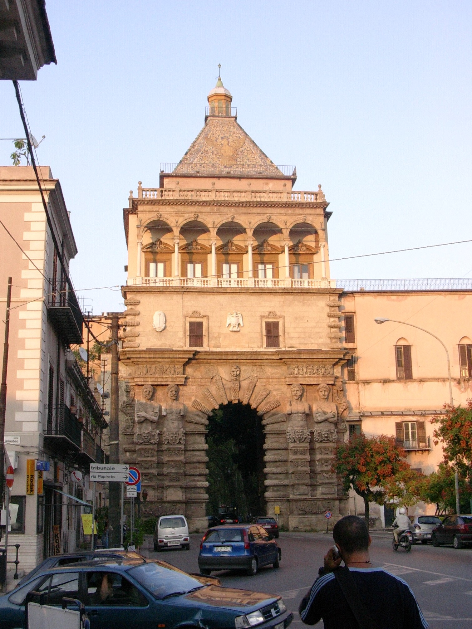 Personal photo by Valentina Funel, September 2005